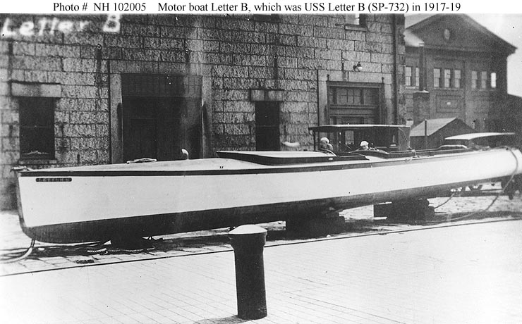 The private motorboat Letter B hauled out of the water sometime prior to her United States Navy service as the patrol vessel